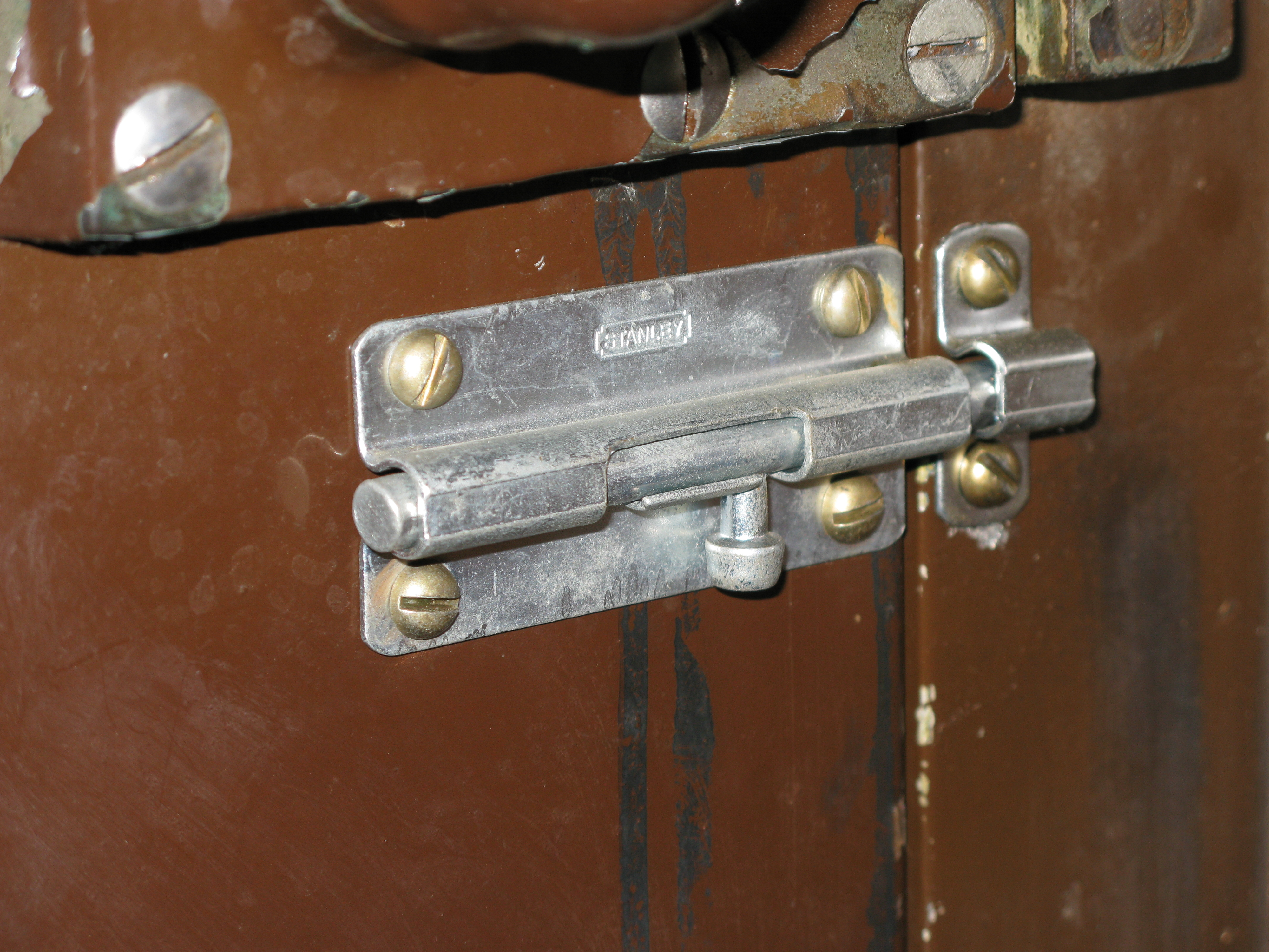 Door Bolt on CTA 1-50 Series 30 railroad car Illinois Railway Museum